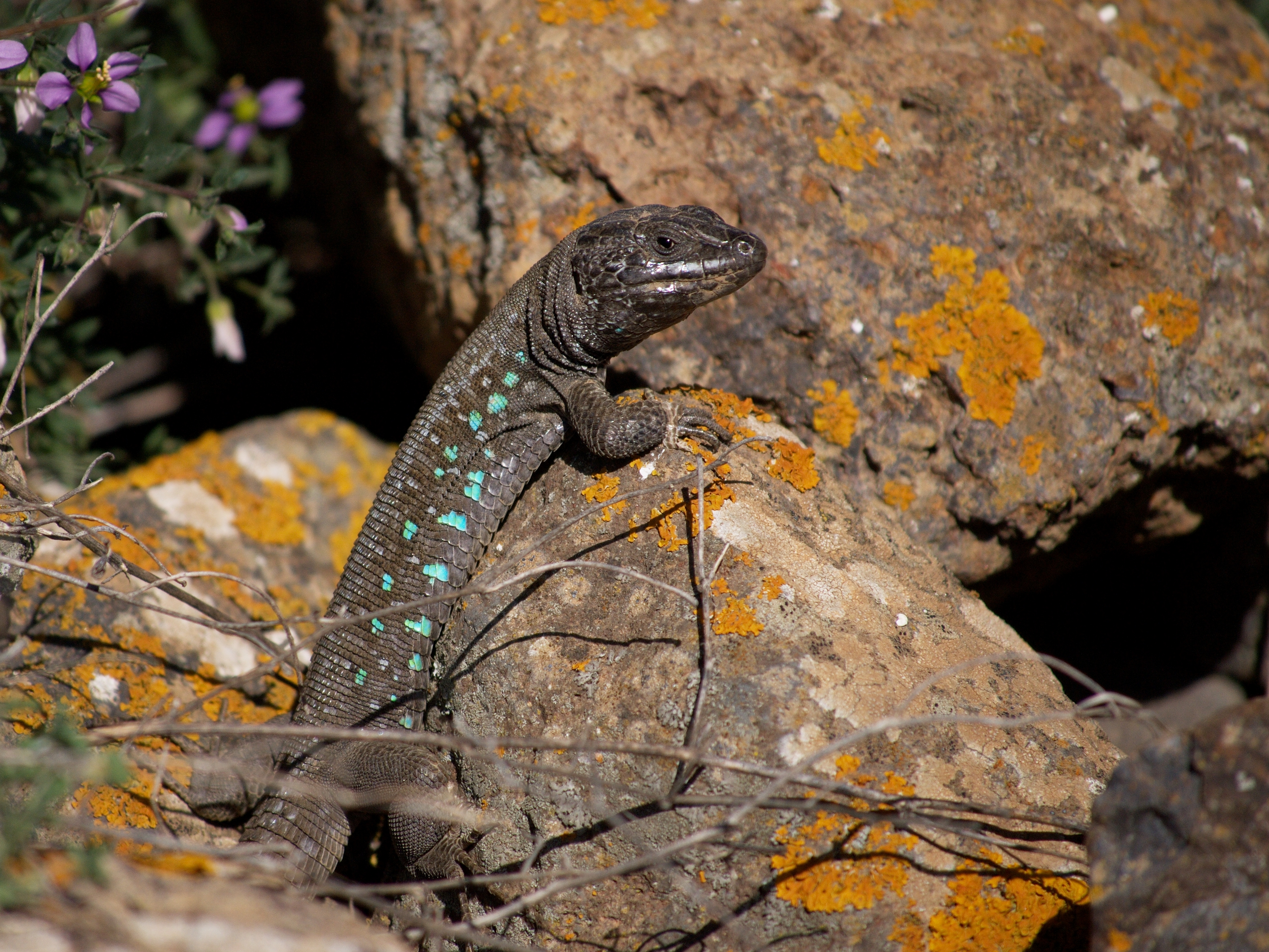 The Atlantic Lizard, Gallotia atlantica, is the smallest representative of the genus Gallotia, a genus of "giant lizards" endemic to the Canary Islands. In its natural range (Lanzarote & Fuerteventura) this species is common and widespread. The nominate subspecies Gallotia atlantica atlantica (PETERS & DORIA, 1882) is confined to Lanzarote, whereas the very similar G. a. mahoratae lives on nearby Fuerteventura. Males are recognised by their larger overall size (up to 28,5 cm), heavier-built heads and large turquoise-blue side-spots, which are either absent or smaller in the females. Panasonic GF1 + Panasonic Lumix G Vario 100-300, O.I.S